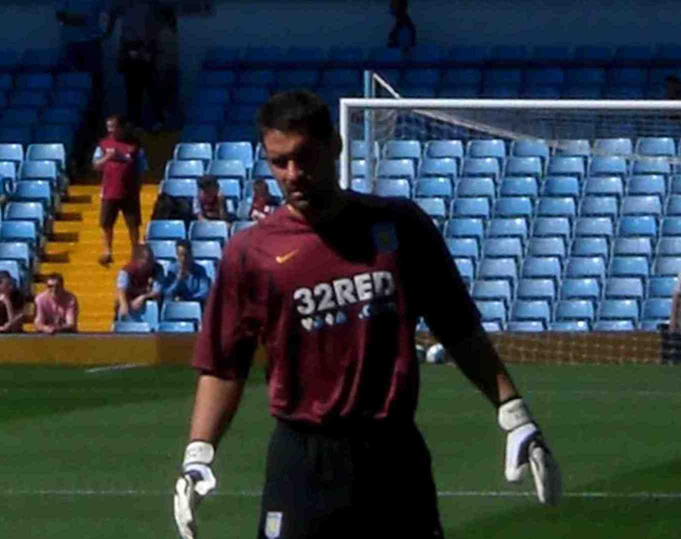 Scott Carson warming up before Aston Villa v Fulham on 25/8/07